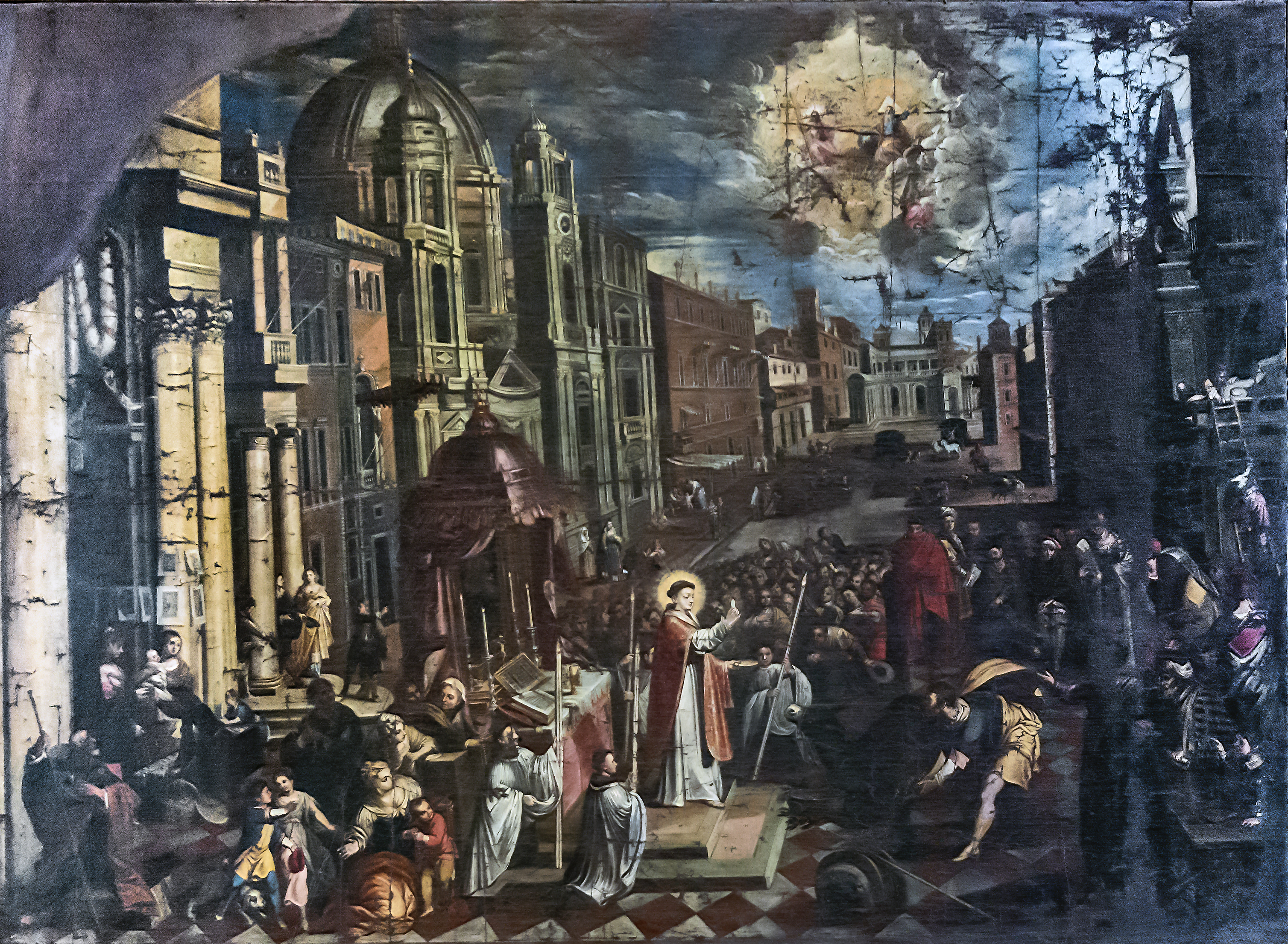 Santi Giovanni e Paolo in Venice. Chapel of Pius V - Left wall - St Anthony of Padua The Miracle of the Mule by Joseph Heintz the Younger.